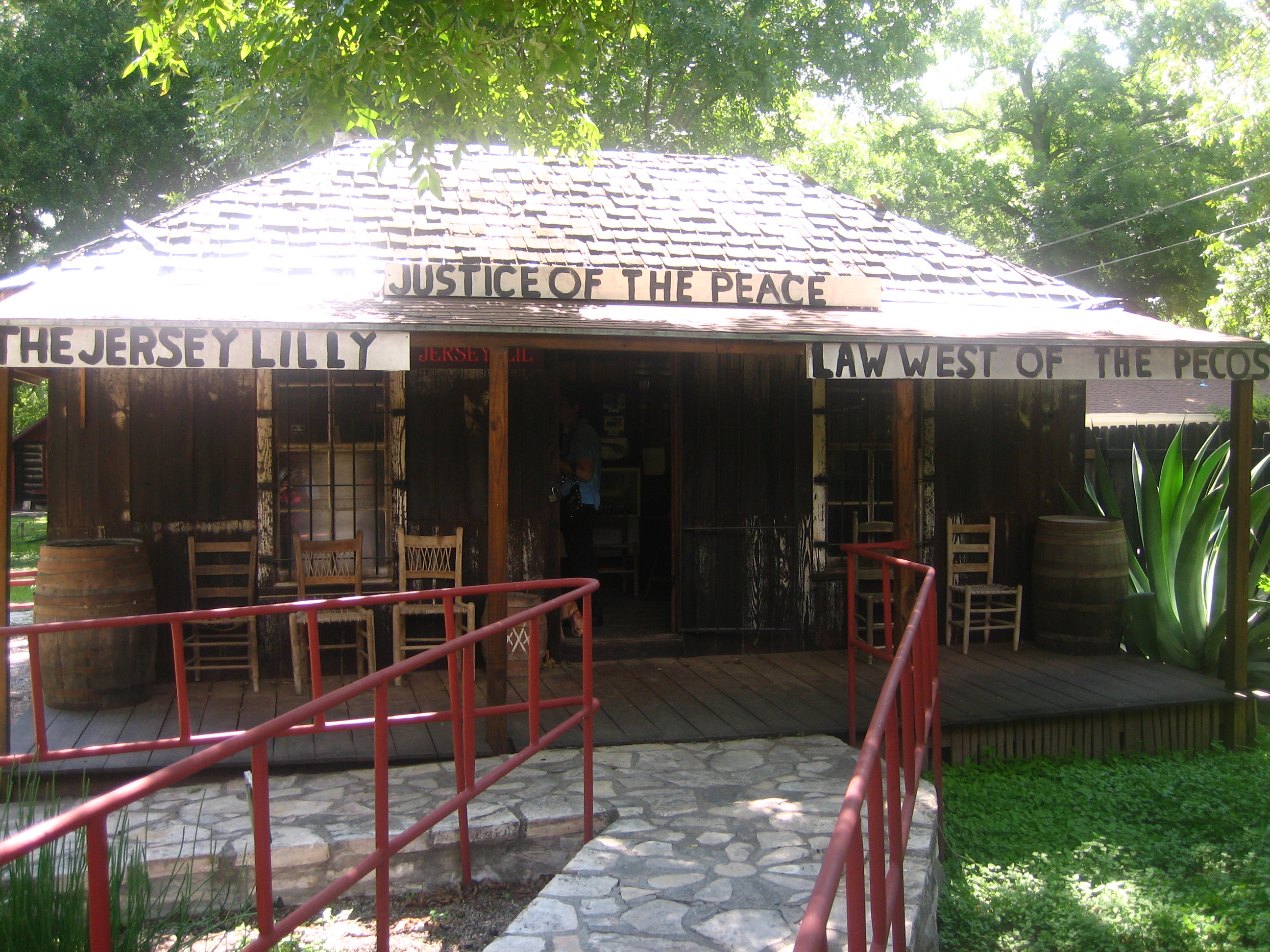 I took photo in July 2008.